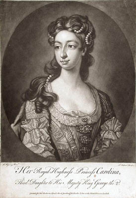 Her Royal Highness Princess Carolina, Third Daughter to His Majesty King George the 2d.